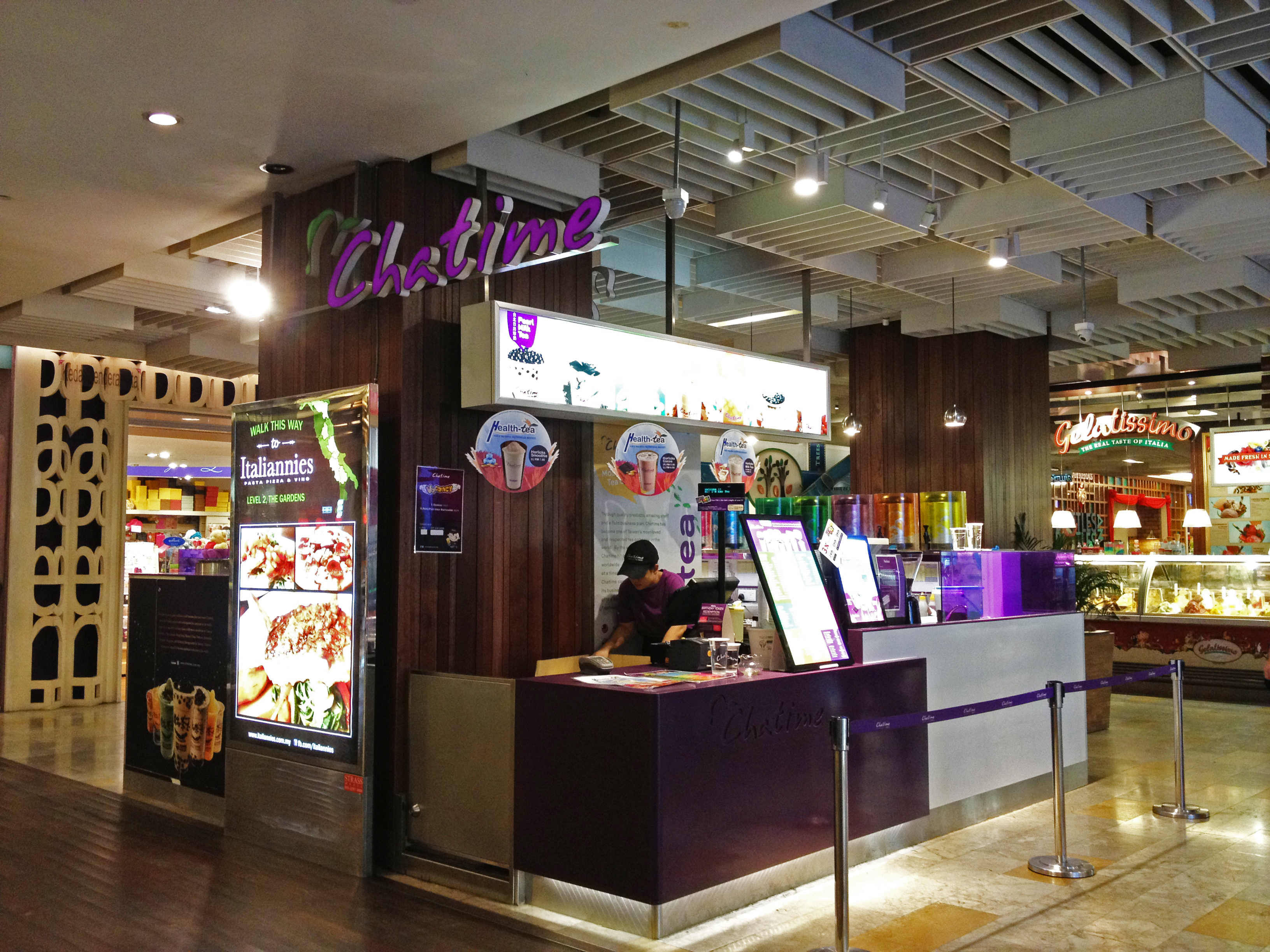 An outlet of Chatime, and Asian tea brand, in a shopping mall in Kuala Lumpur, Malaysia.